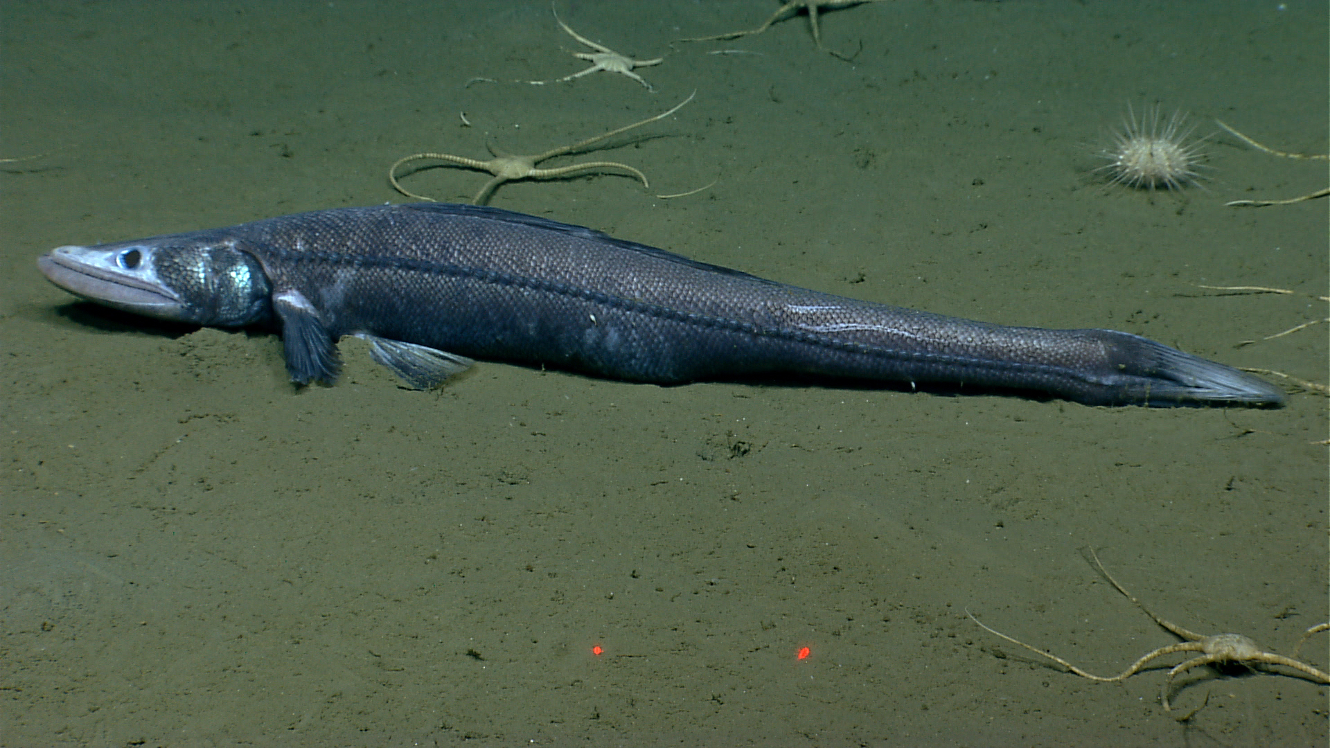 Deep sea fish. A bathysaurus. These fish use their lower jaw to scoop in the sand. Image ID: expl9674, Voyage To Inner Space - Exploring the Seas With NOAA Collect Location: Veatch Canyon, center to west side 2108-1969m Photo Date: 20130720T163009Z Credit: NOAA OKEANOS Explorer Program , 2013 Northeast U. S. Canyons Expedition